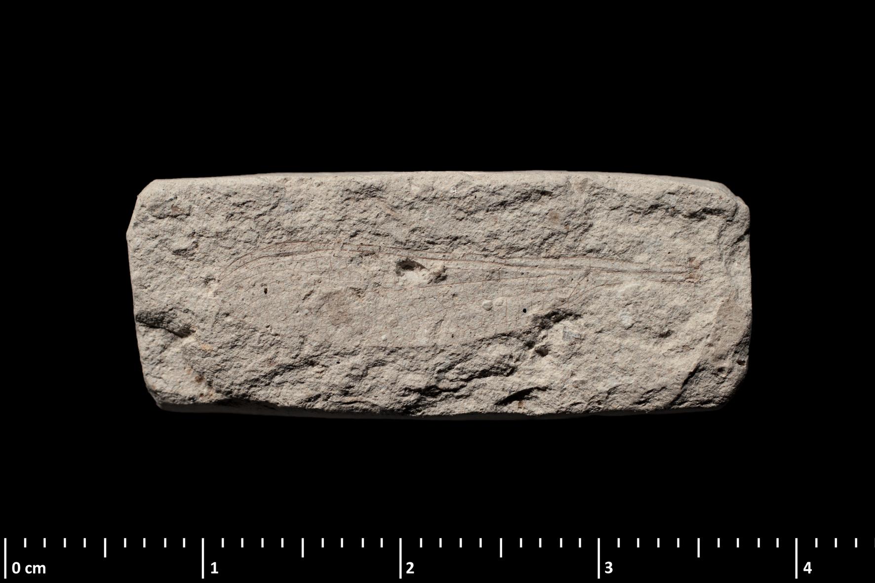 The Sympecma incerta holotype specimen with direct lighting. Synonym Lestes incertus Piacenzian, Pliocene; Lac Chambon, Puy de Dôme, Auvergne, France Muséum national d'Histoire naturelle specimen MNHN.F.B47285